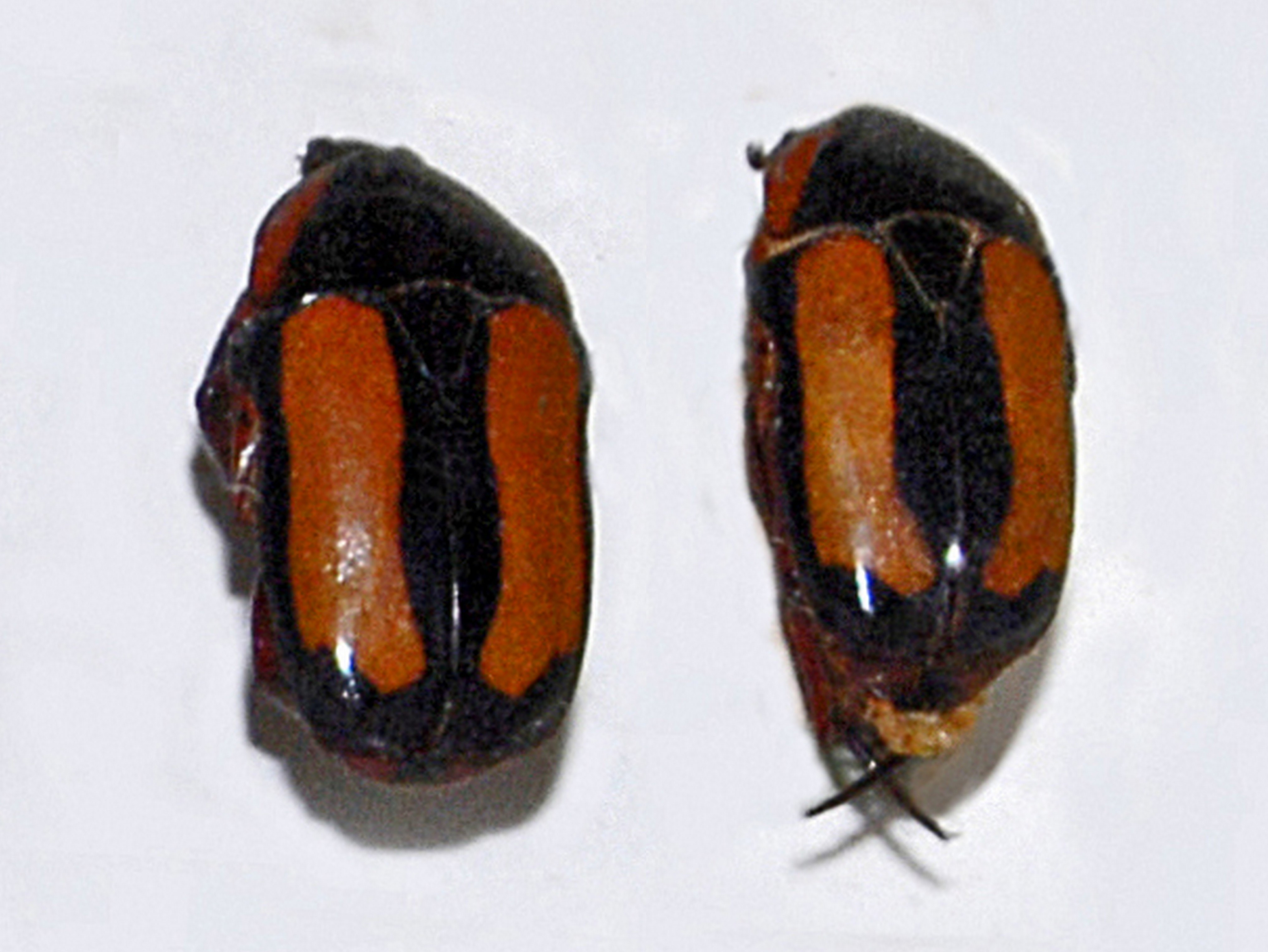 Taeniesthes specularis on display at the Civico Museo di Storia Naturale di Trieste